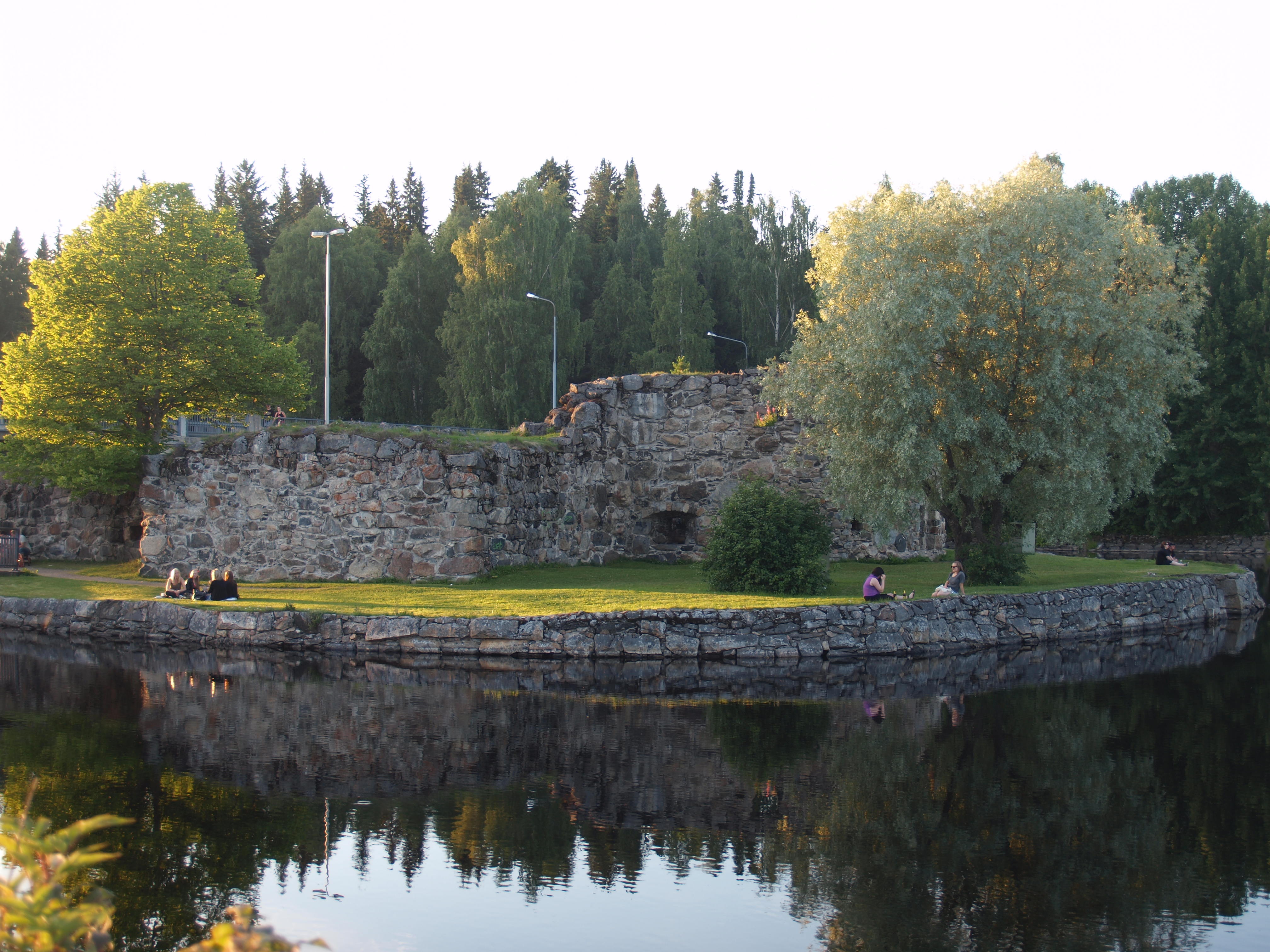 The ruins of the Kajaani Castle in Finland, viewed from the outside, in late evening on a summer day.